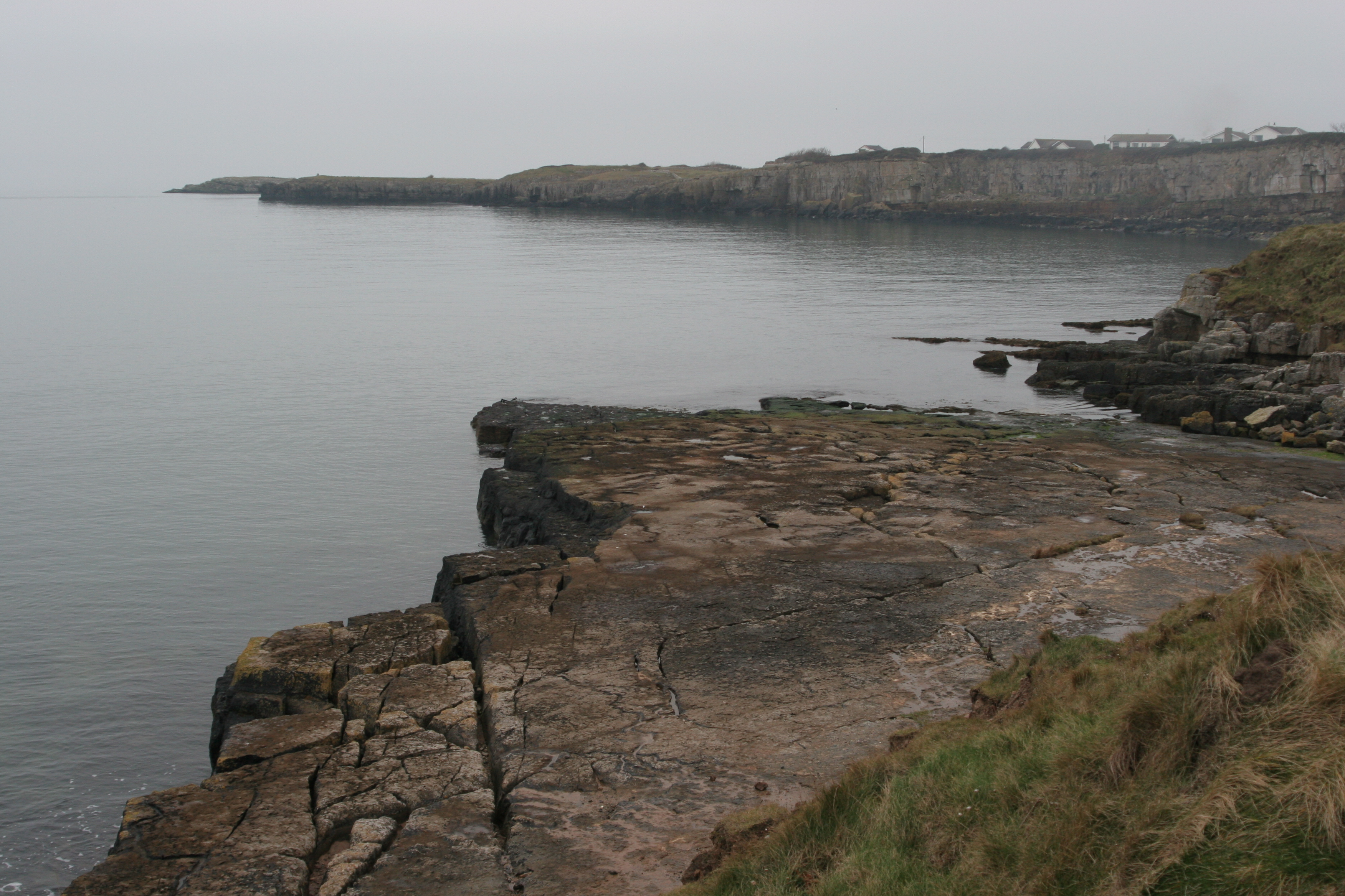 Rocks near Moelfre - site of wreck of the Royal Charter Rhion Pritchard